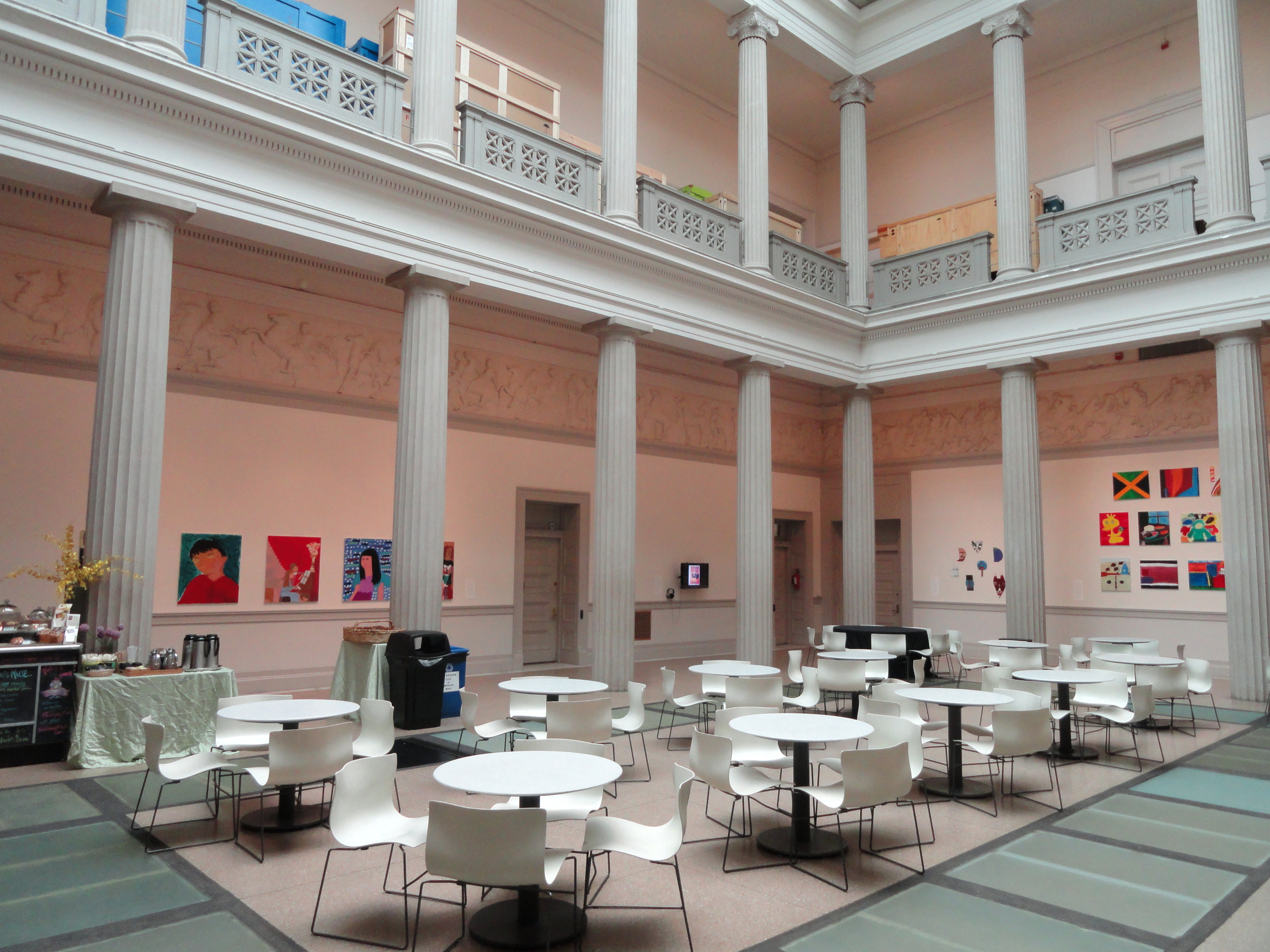 Corcoran Gallery of Art, Washington, D.C., USA.